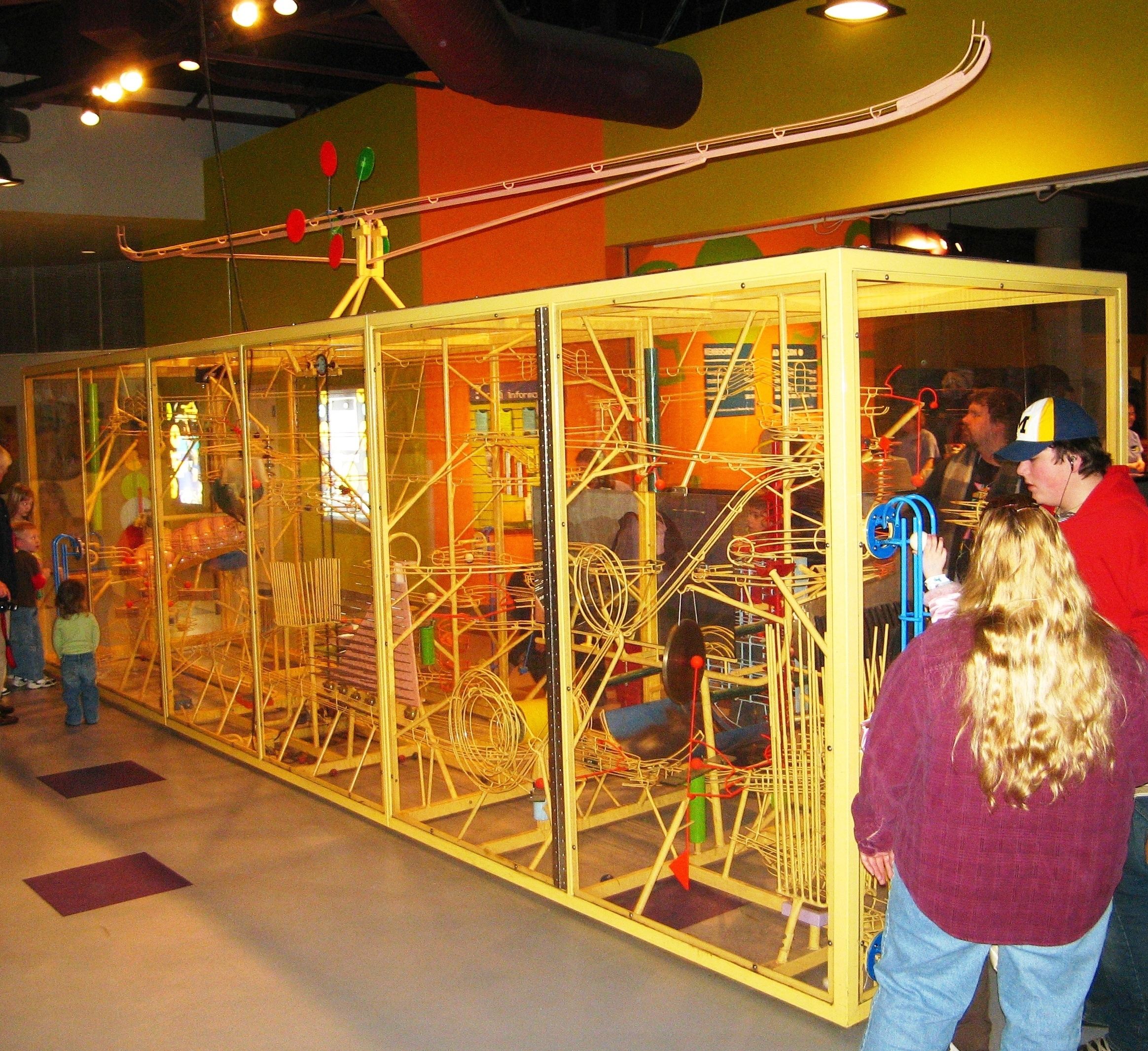 A Rube Goldberg-style music machine located in the main lobby of COSI Toledo.